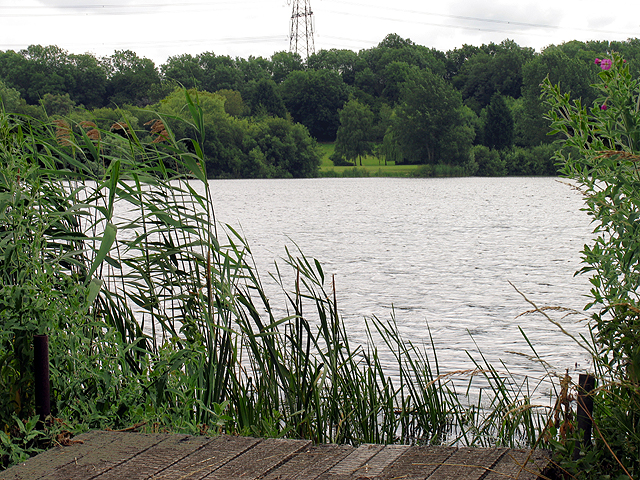 Horsehill Lake near Burghfield. This section of the lake is in the north western section of the square, looking more or less east (note the pylon). The square is largely lake and farmland with some minor roads.